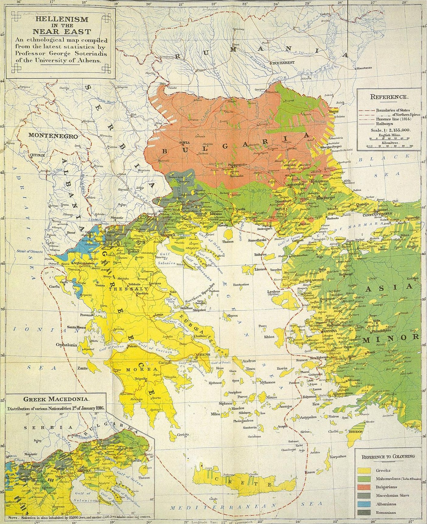 "...The present map, on the other hand, takes not language, but national conciousness as the only satisfactory criterion of nationality..." - The original, detailed explanation from the publisher of the map is exposed here. Important factor: the map shows the population, as it was before the 1923-1930 population exchange processs, and before migrations caused by the Greek civil war. The map recognizes the "Macedonian Slavs" nationality, as a separate one, non-Bulgarian.